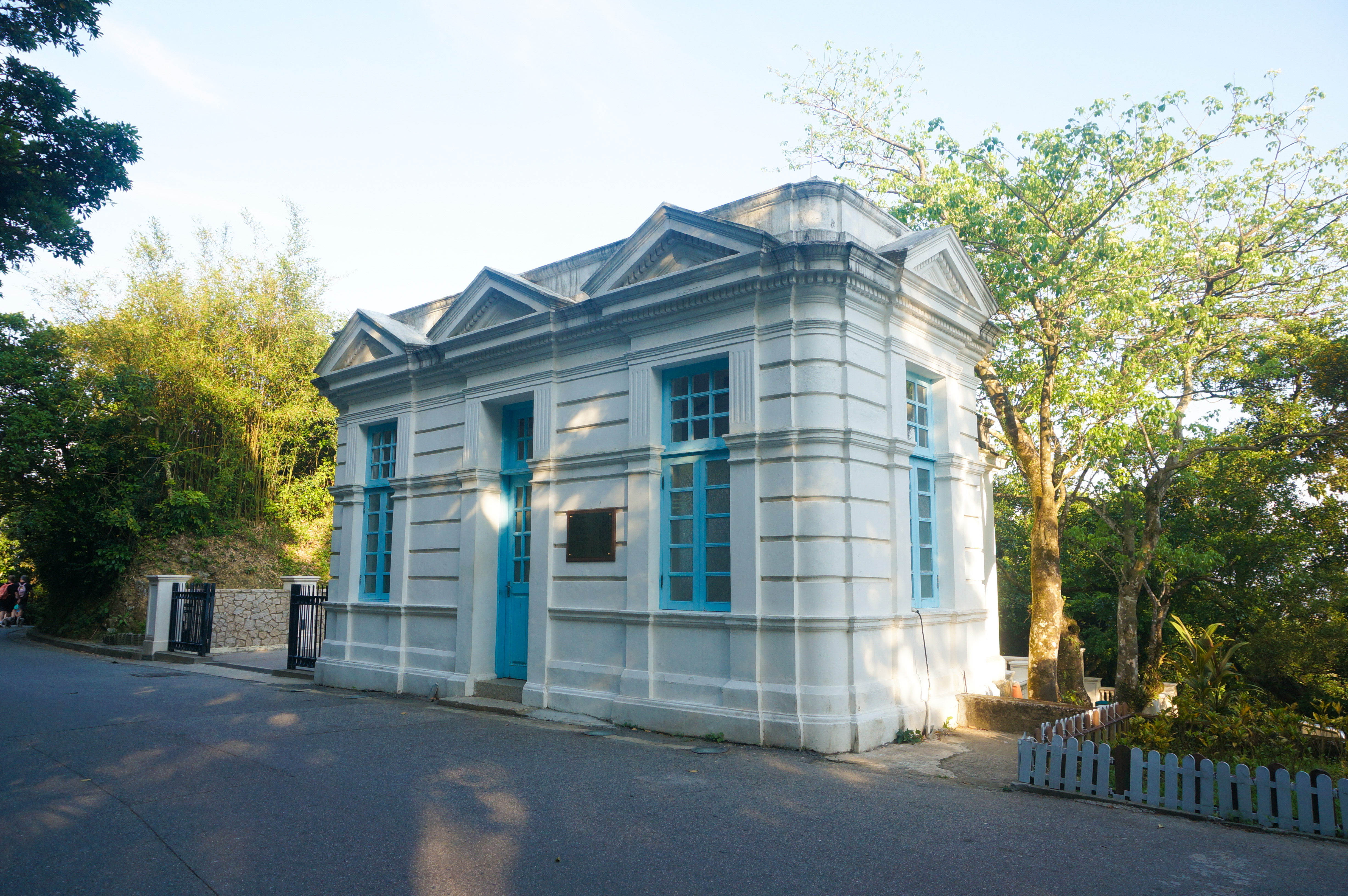 中文（香港）: The Mountain Lodge Guard House near Victoria Peak Garden